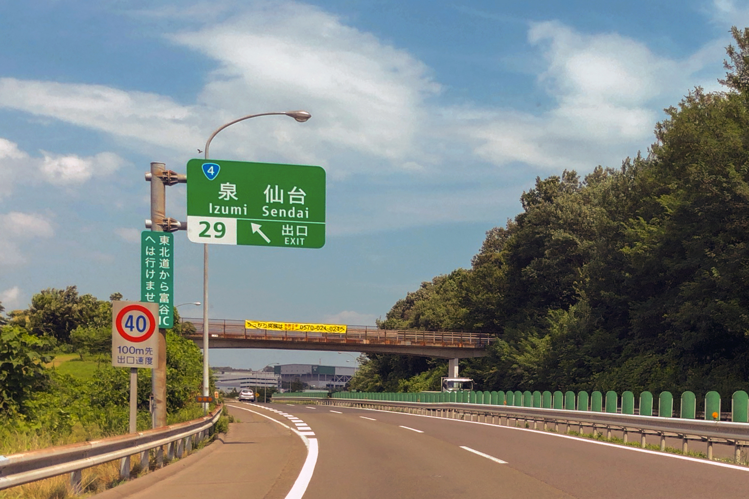 Izumi Interchange on the Tohoku Expressway northbound line in Sendai City, Miyagi Prefecture, Japan